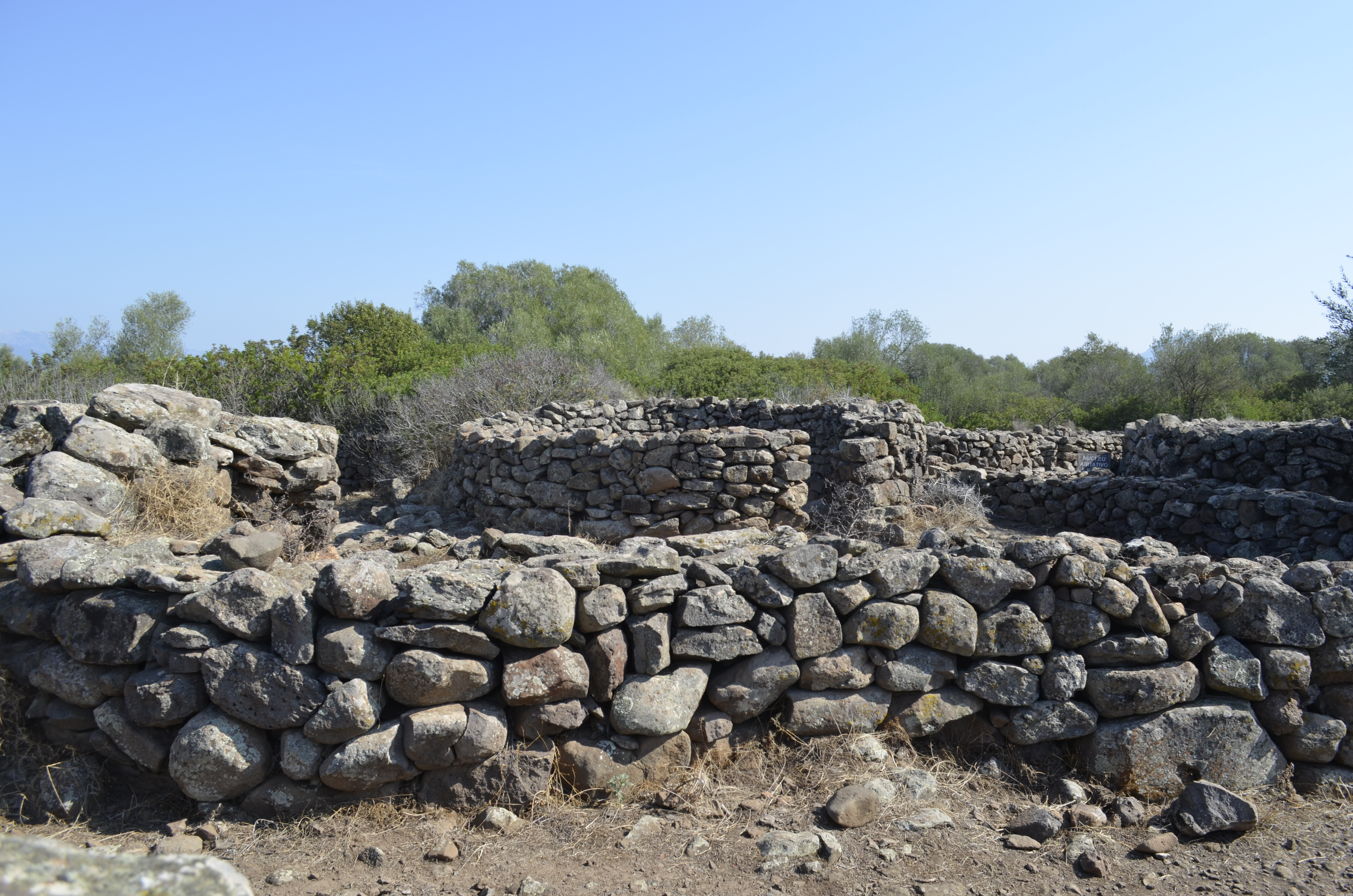 Nuragic village in Serra Orrios